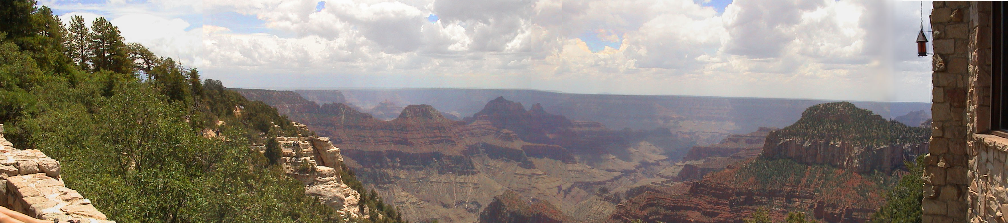 A panoramic camera tries to take in the immense view of the Grand Canyon from the Grand Canyon Lodge on the Kaibab Plateau – North Rim Parkway